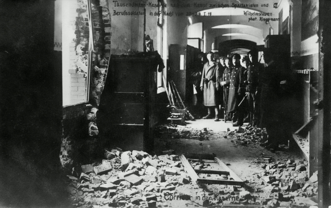 Tausend Mann Kaserne nach Erstürmung